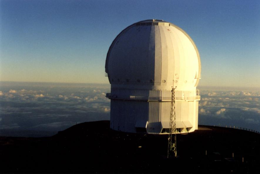 Exterior of the Canada-France-Hawaii Telescope, part of the Mauna Kea Observatory in Hawai'i.